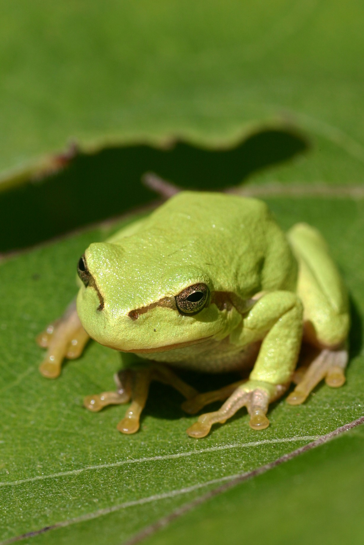 European tree frog (Hyla arborea). Photograped near Gruberau (Lower Austria).